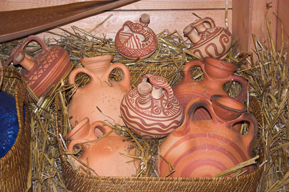 Replica from the mycenian crockery found in the shipwreck.